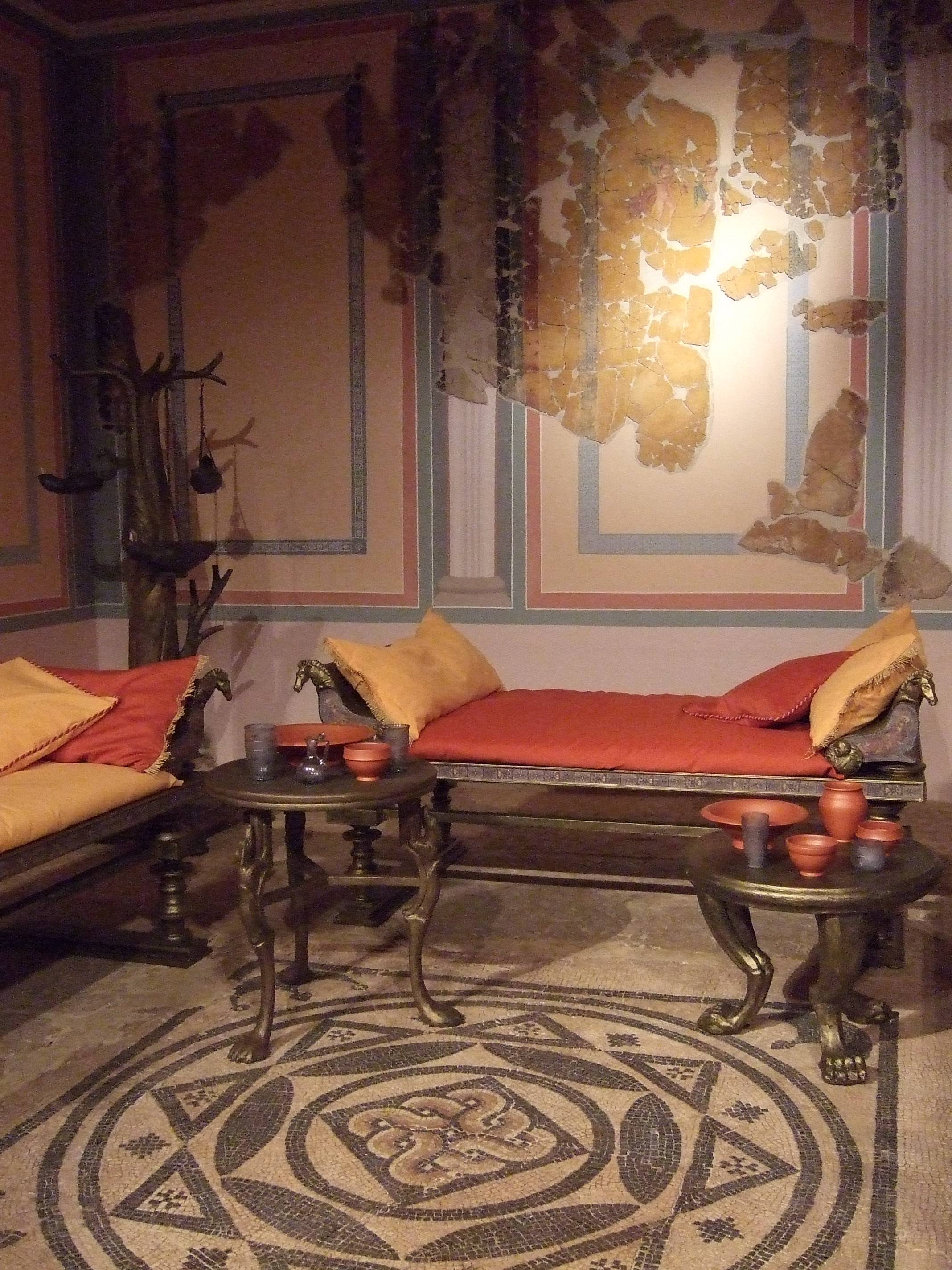 Triclinium of the Añón street (1st c. AC). Caesaraugusta